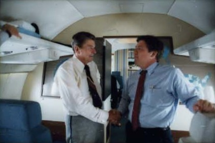 President Ronald Reagan with Haley Barbour and Mike Hudons